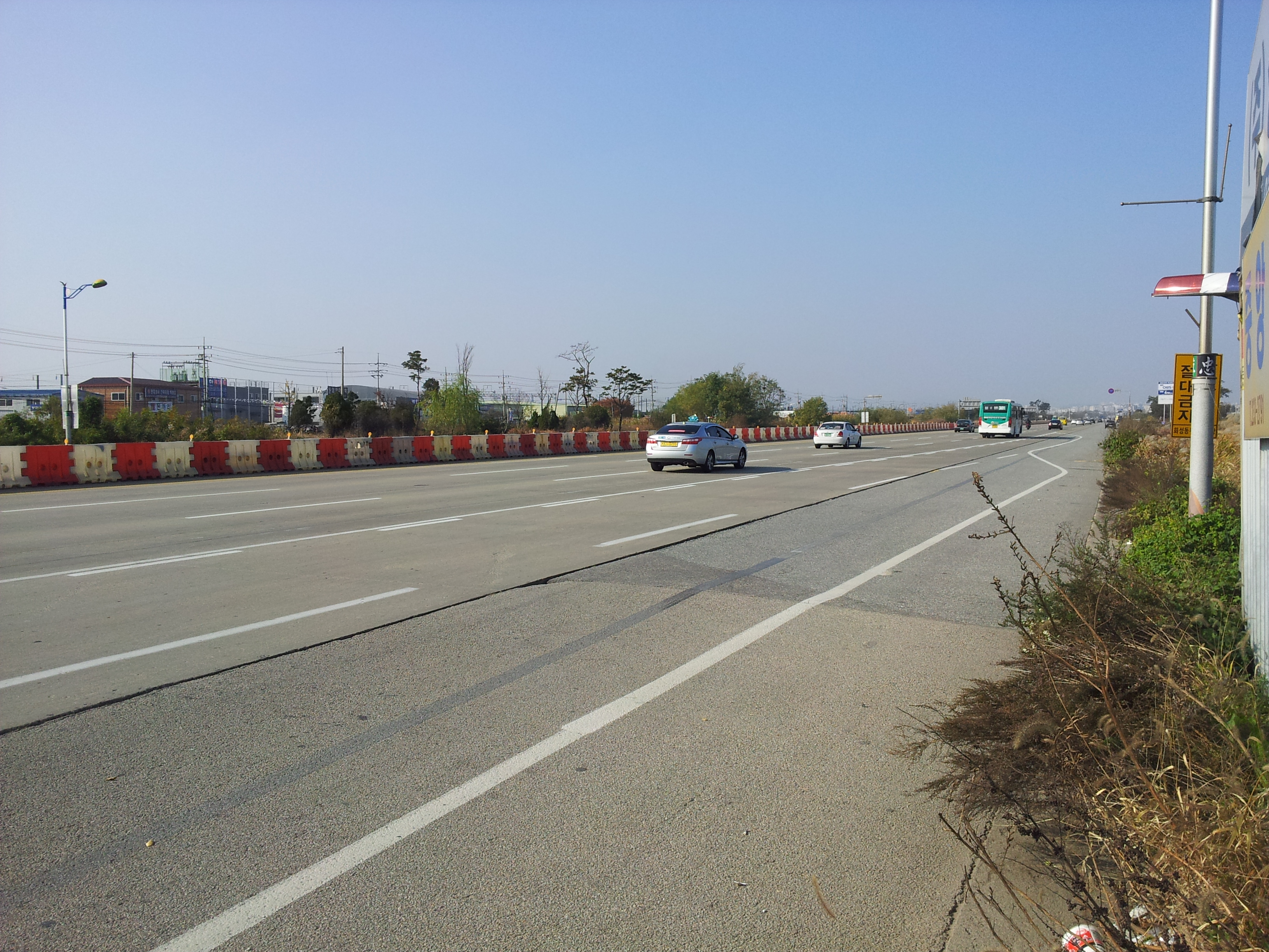 Suwon emergency landing stop, from Hwaseong side.